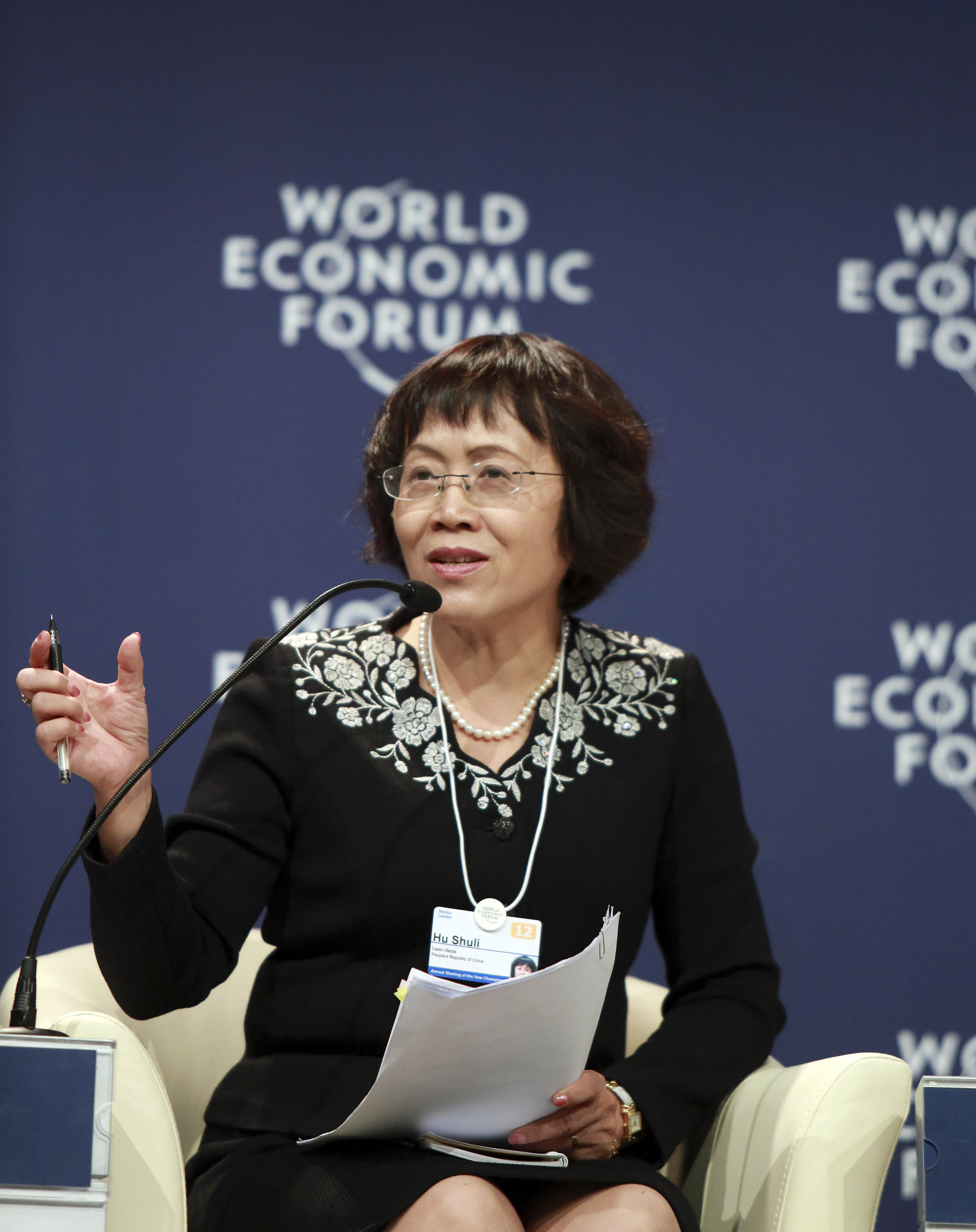 Hu Shuli, Editor-in-Chief, Caixin Media, People's Republic of China at the Annual Meeting of the New Champions in Tianjin, China 2012